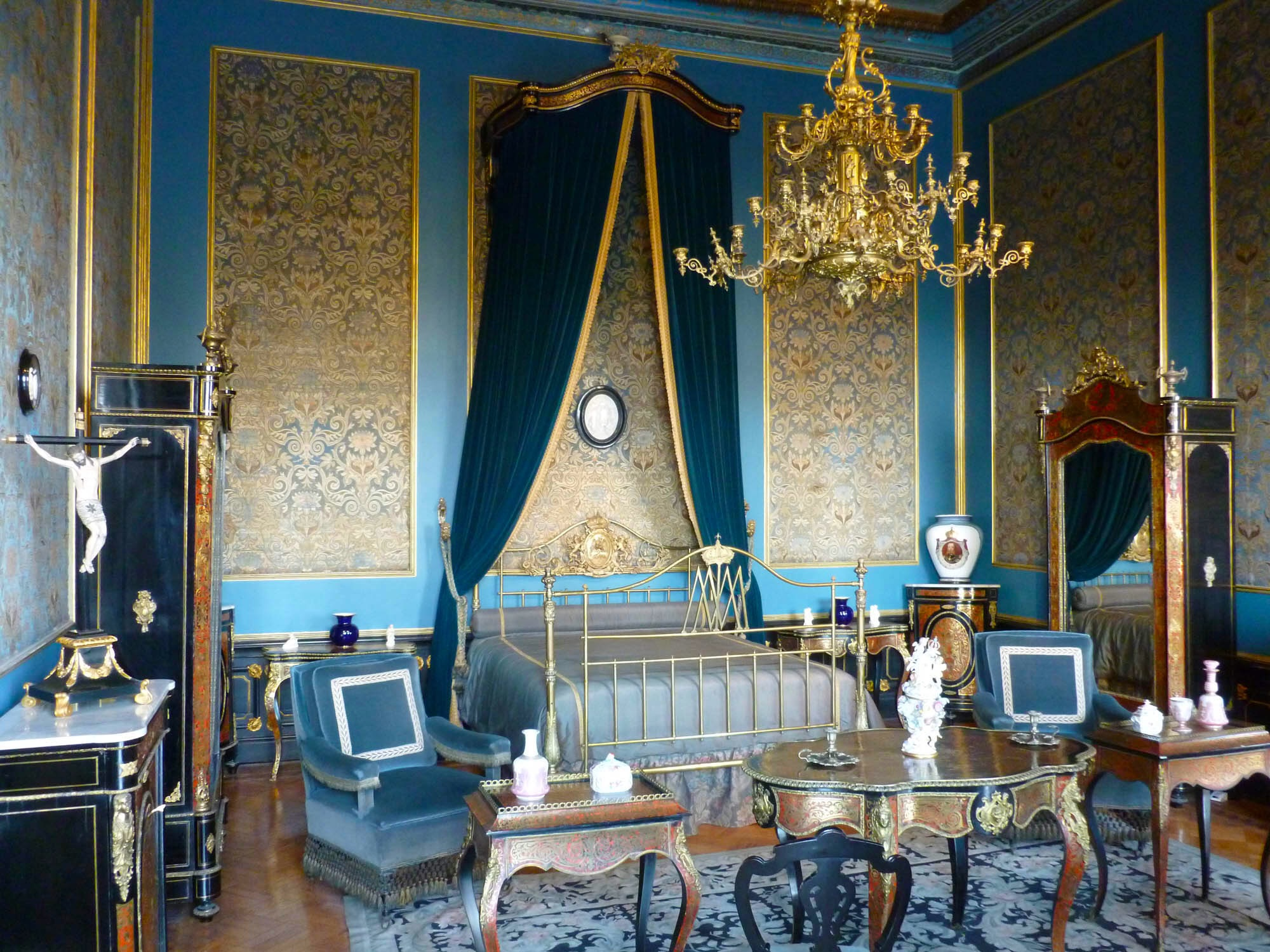 At the Castillo de Chapultepec (Chapultepec Castle), Mexico City